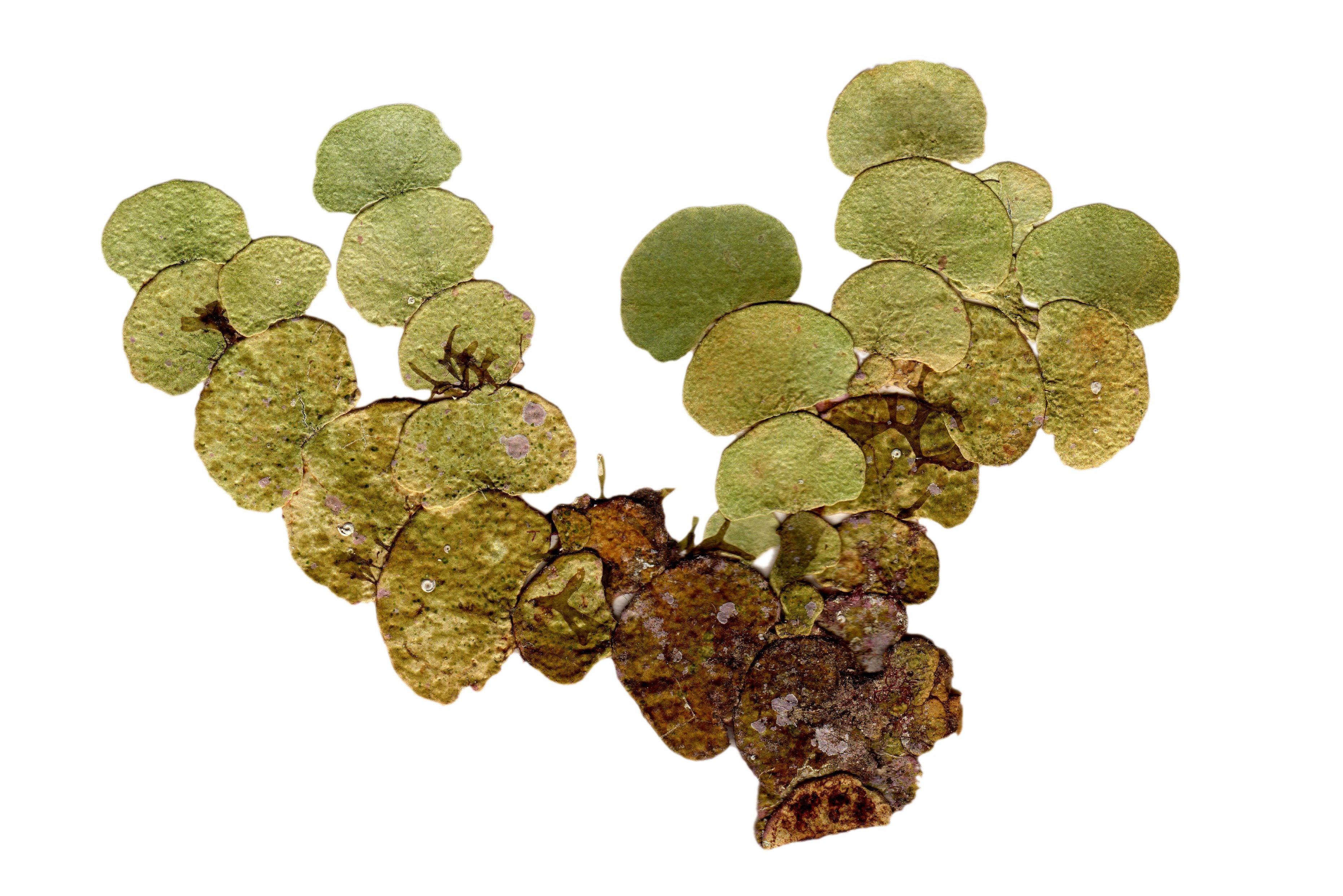 Halimeda tuna, personnal herbarium item collected near Villefranche-sur-mer